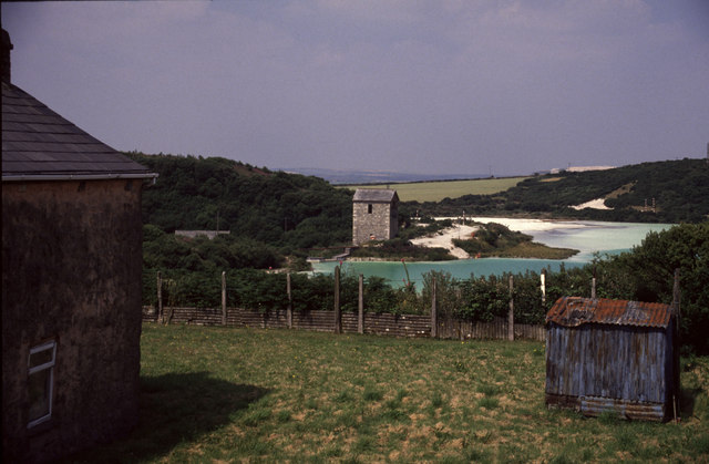 Carpalla engine house I've struggled long and hard with the location of this but I think I'm right for the grid reference on the solitary engine house in the middle. Where I was stood is lost in the mists of 18 years. The engine house is one of the few with a roof and housed a 40" engine moved from a metalliferous mine at St Agnes. Here it drained a china clay pit which is now flooded as a mica dam. The engine was removed in 1944 and is in store at the Wroughton store of the Science Museum.